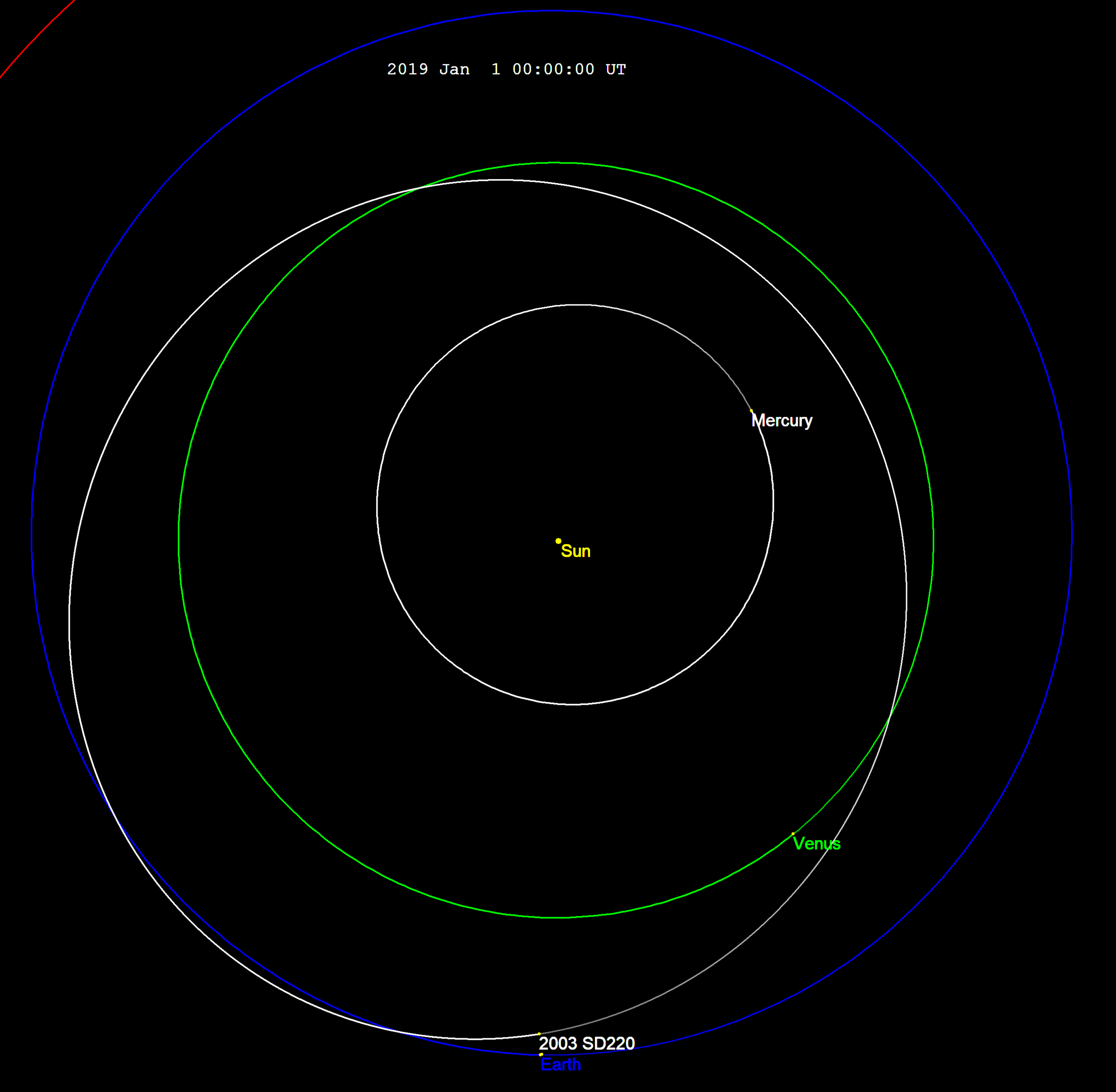 Aten asteroid en:163899 (2003 SD220) and orbit with ~1/1/2019 flyby of earth